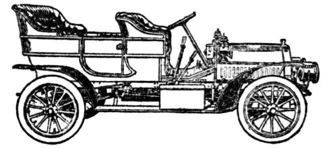 A drawing from an ad in "The Sun" newspaper New York City